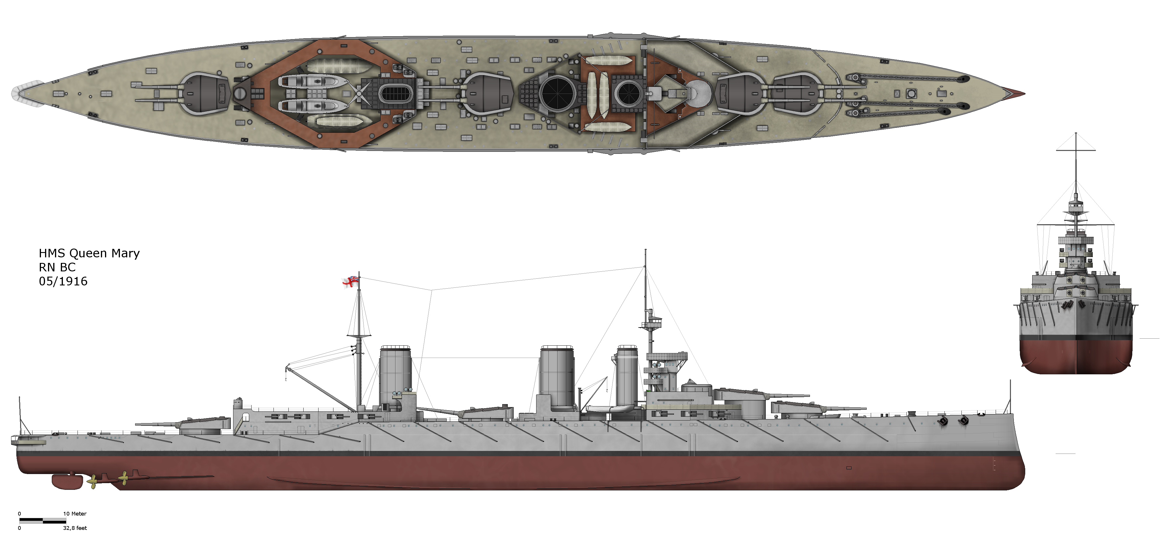 Drawing of the HMS Queen Mary in her final configuration in May 1916. Additional info obtained from: John Roberts: Battlecruisers., Chatham Publishing, 1997 Construction drawings Various photographs